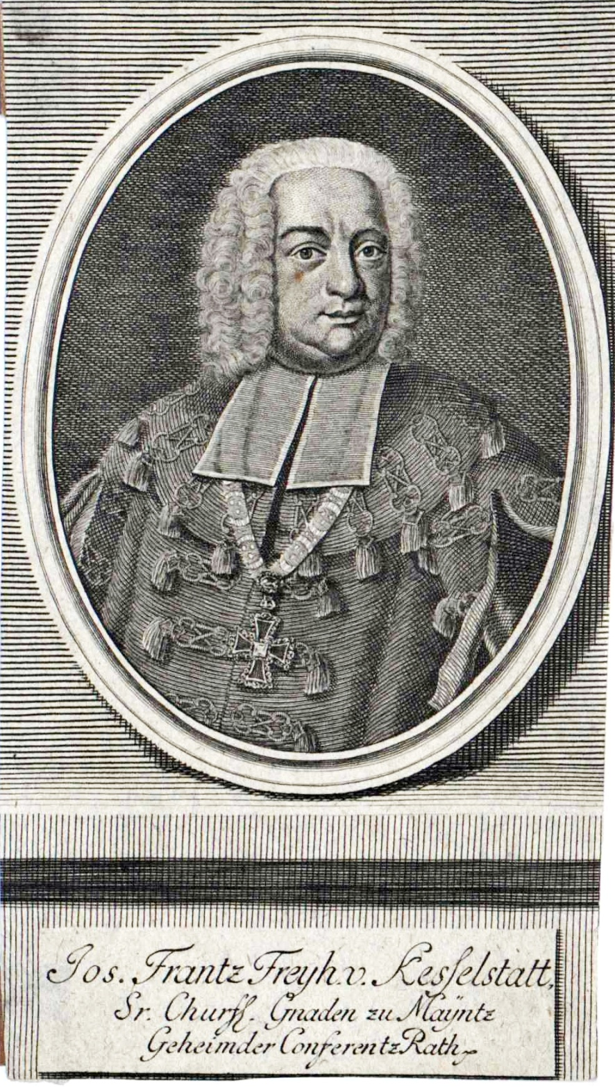 Joseph Franz von Kesselstatt (1695-1750), Freiherr und Diplomat, Domdekan in Mainz, Dompropst in Trier